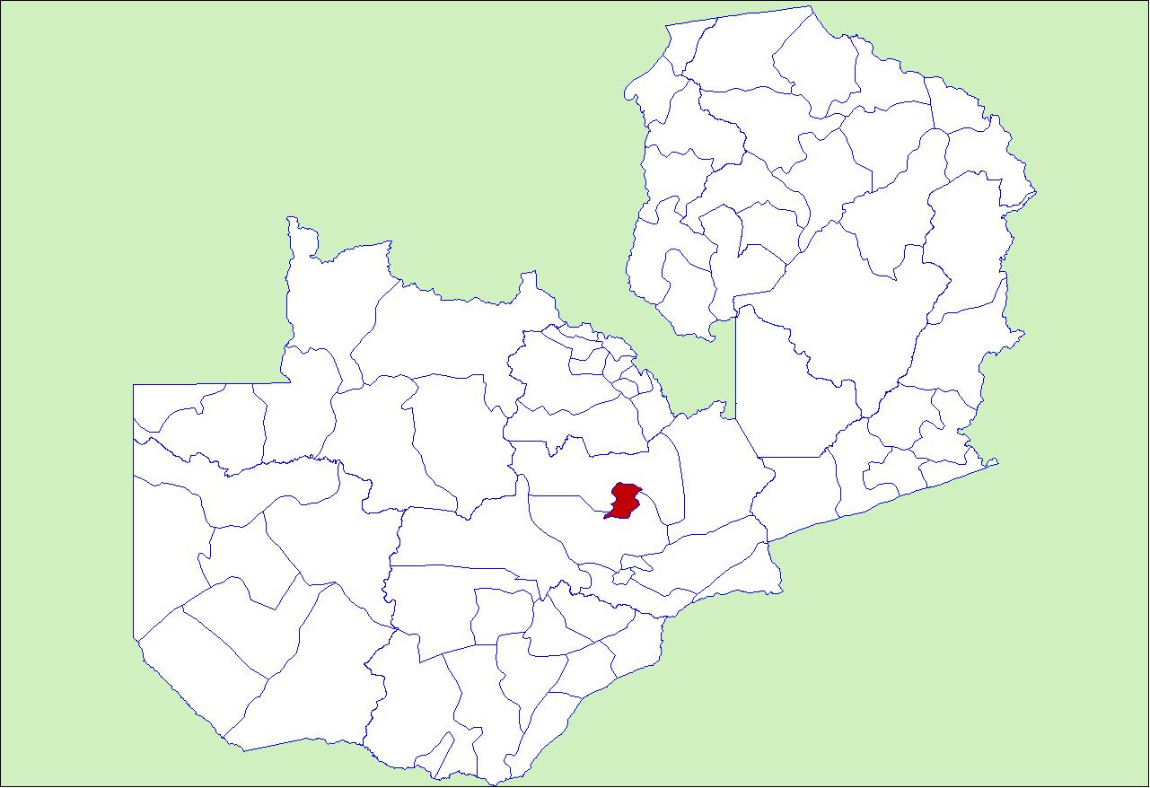 District locator in Zambia